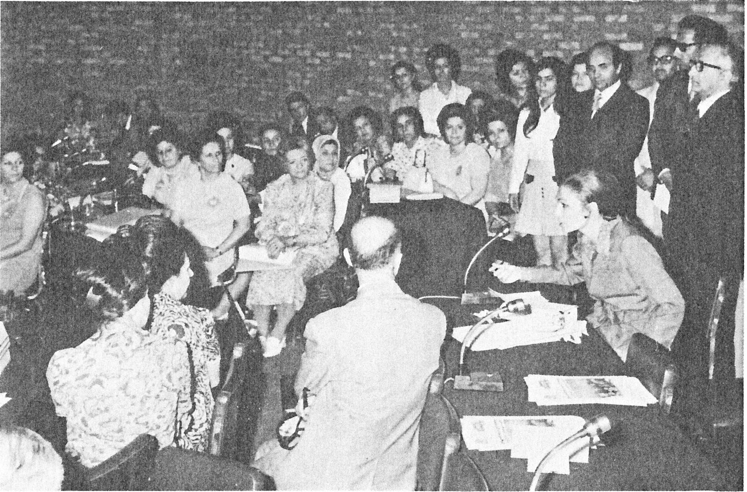 conference of directors of all organizations under the chair of Shahbanu Farah Pahlavi, 1975